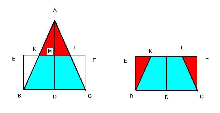 Area of triangle